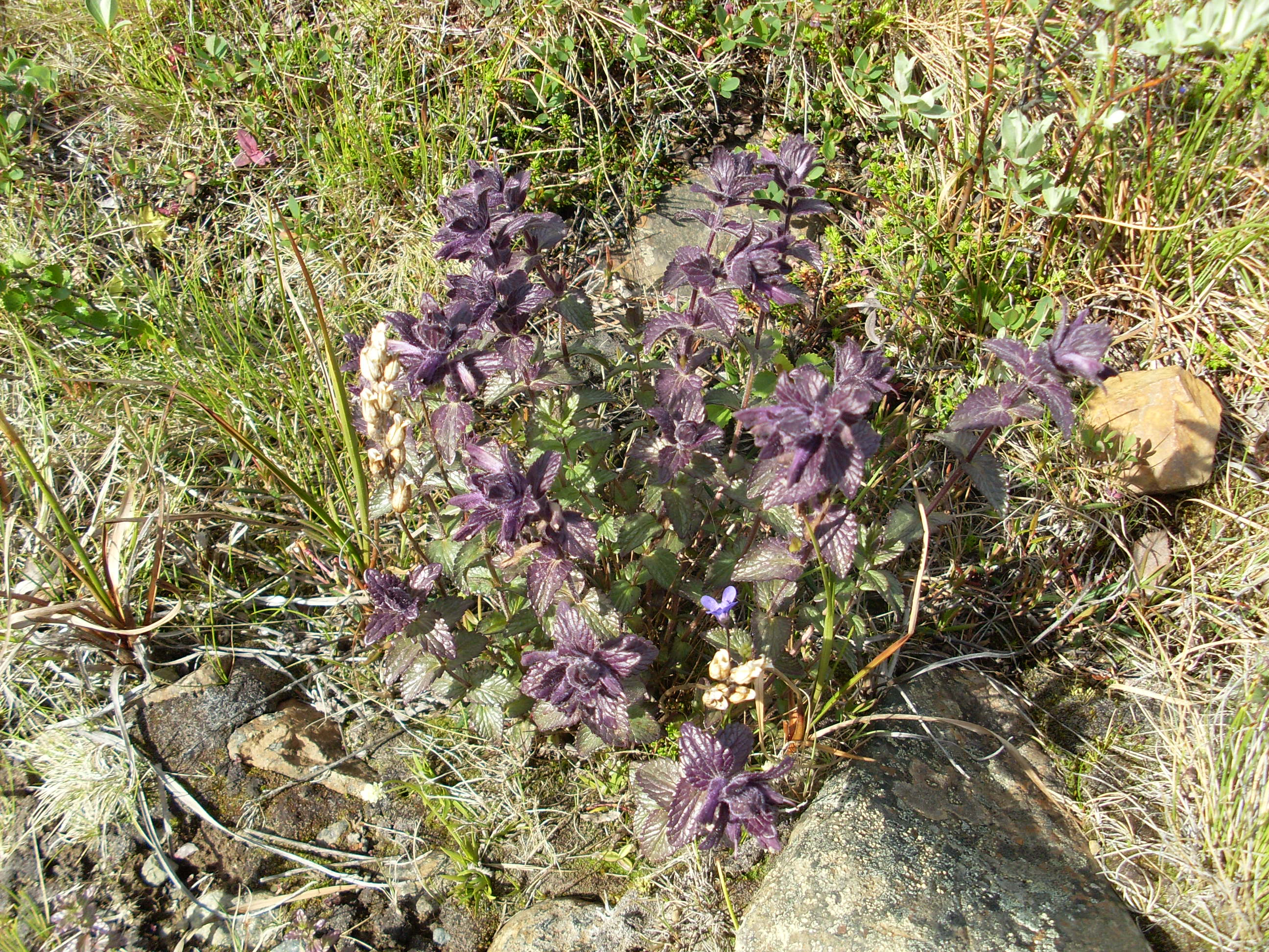 Bartsia alpina - photo is taken at the base of Mount Kebnekaise